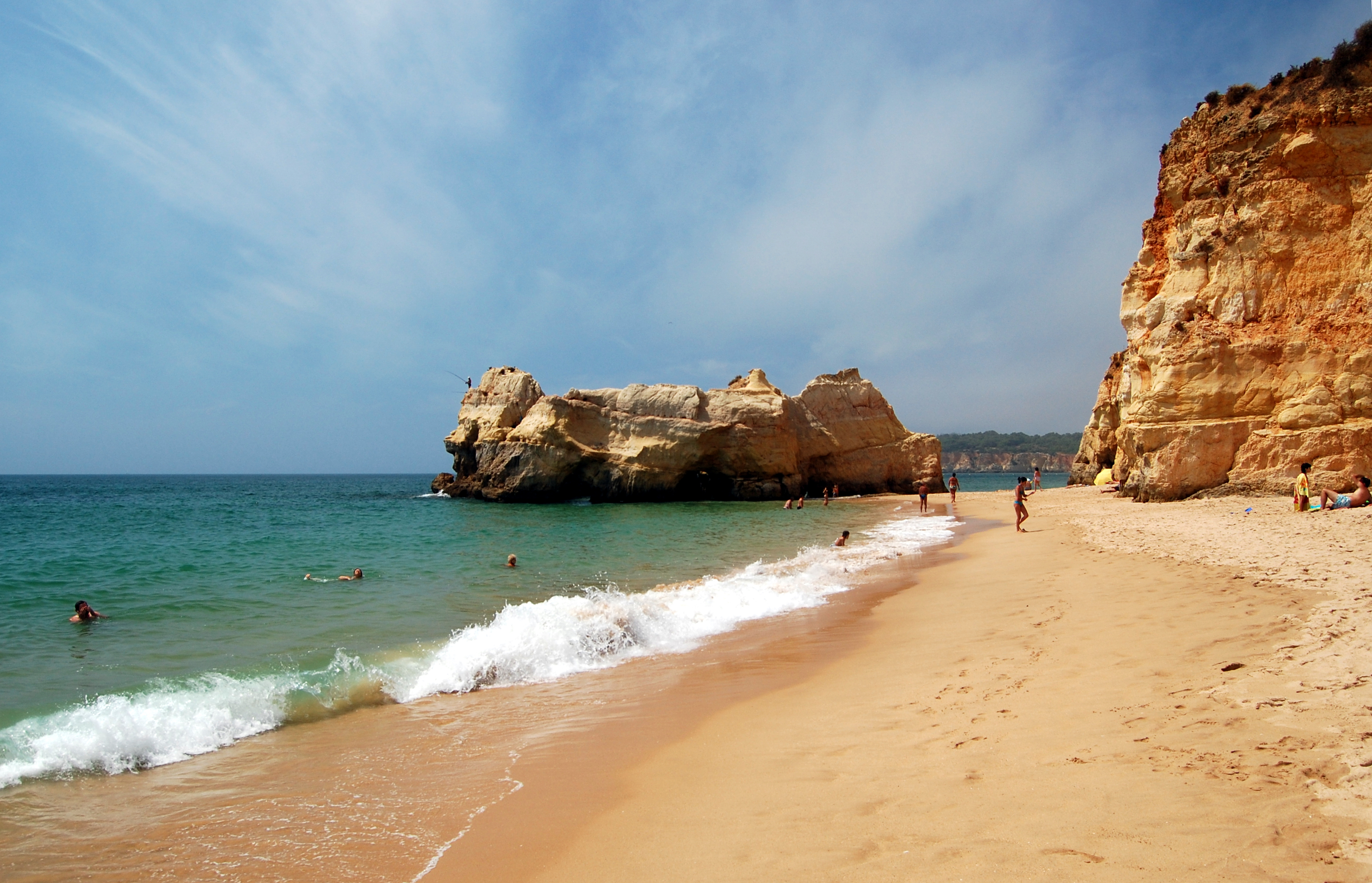 Praia da Rocha (Beach of the Rocks) in Portimão, Algarve, Portugal.